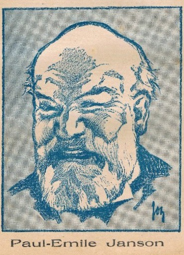 Paul-Emile Janson. Drawing by Jos De Swerts, 1923